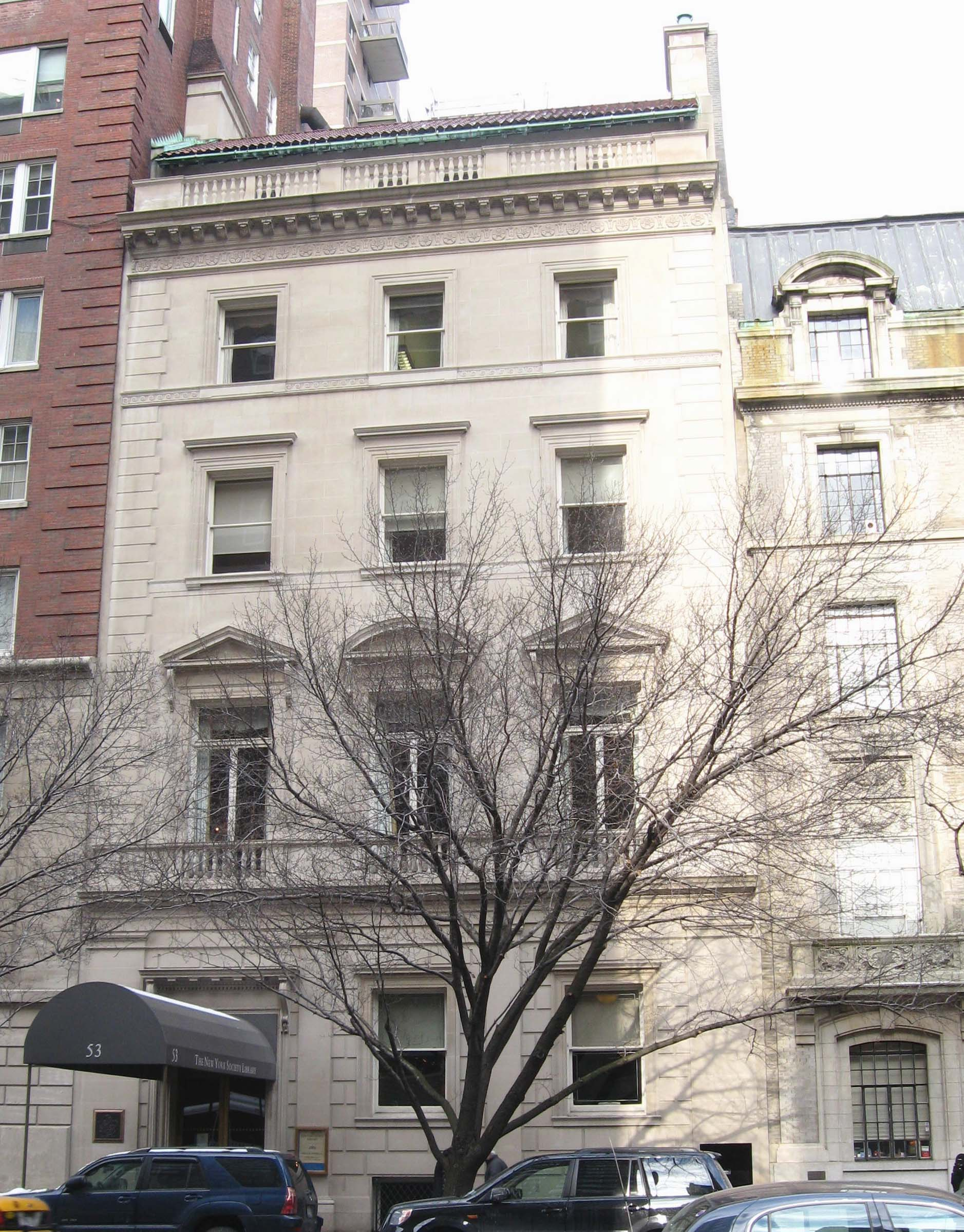 Looking north across 79th Street at John S and Catharine C Rogers House, File:NY Society Library jeh.JPG, now New York Society Library. ZIP 10075. NYCLPC designation 1967. Neighbor building to its right is File:Iselen house 59 E79 jeh.JPG